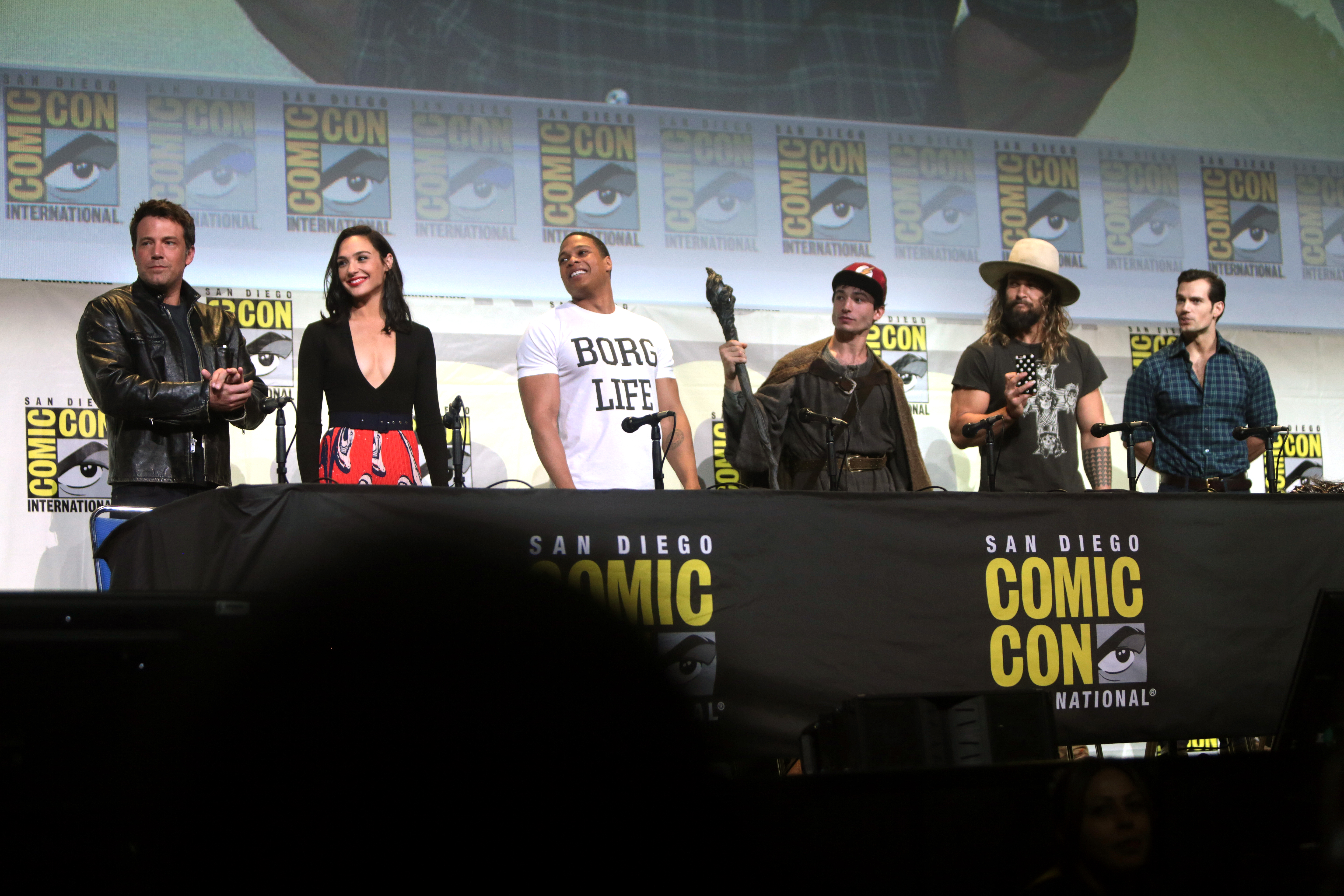 Ben Affleck, Henry Cavill, Gal Gadot, Ray Fisher, Ezra Miller and Jason Momoa speaking at the 2016 San Diego Comic-Con International in San Diego, California.